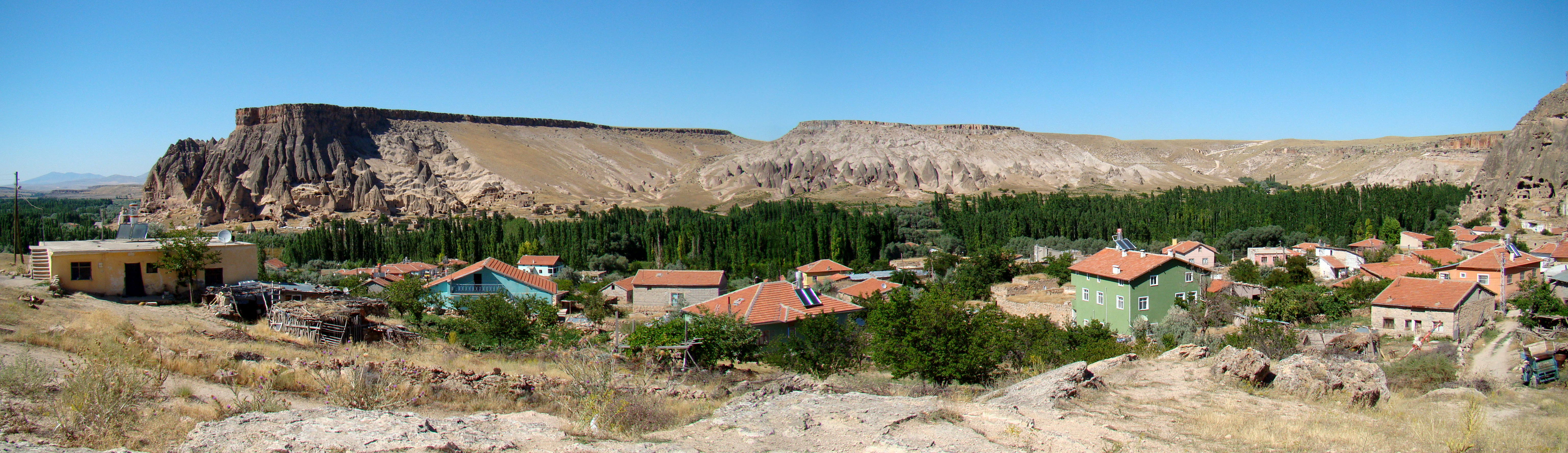 The Ihlara Valley (more like a canyon) opens up to a more open landscape as it comes from the east (right side of this photo) and meets the town Yaprakhisar. This view is claimed by local tour operators to have been used in a Star Wars movie, but this is not true. What is true, though, is that in left back of the photo you see an area with many impressive caves carved out of the mountain by people through centuries. "Selime Kalesi" is the most remarkable of them, a monastery/church complex with two large courts.